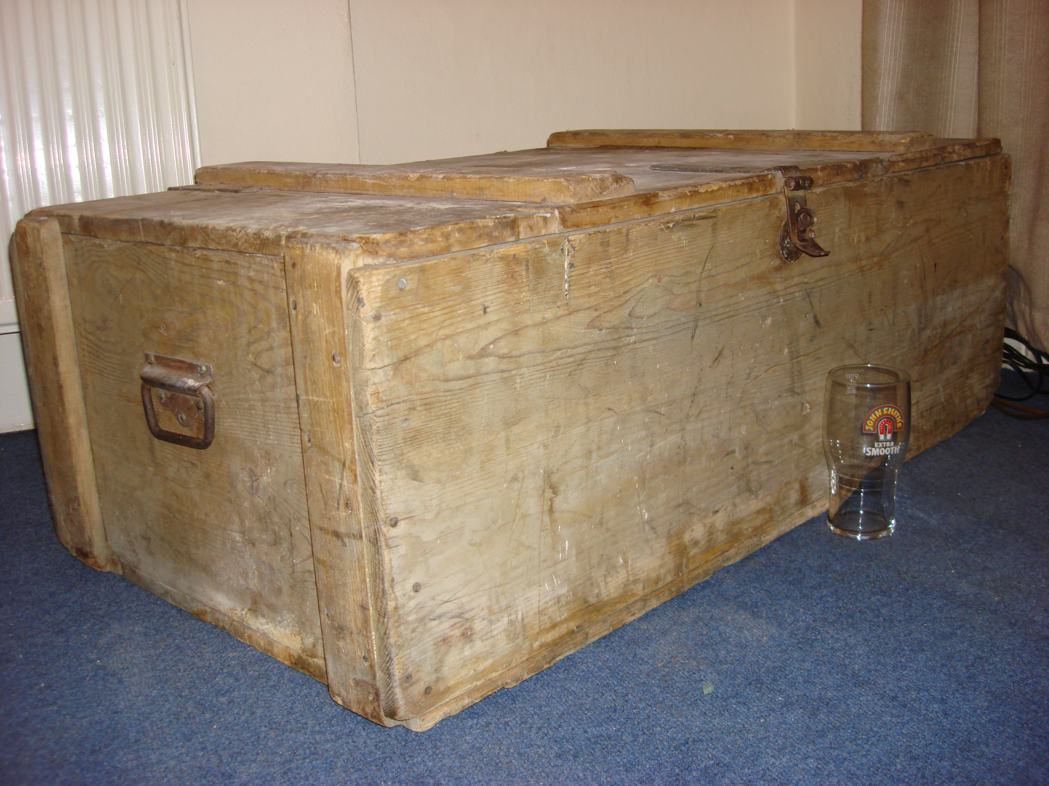 A large wooden box, possibly Victorian, thrown out of a pub during refurbishment, pint glass is there to give an impression of boxes size.